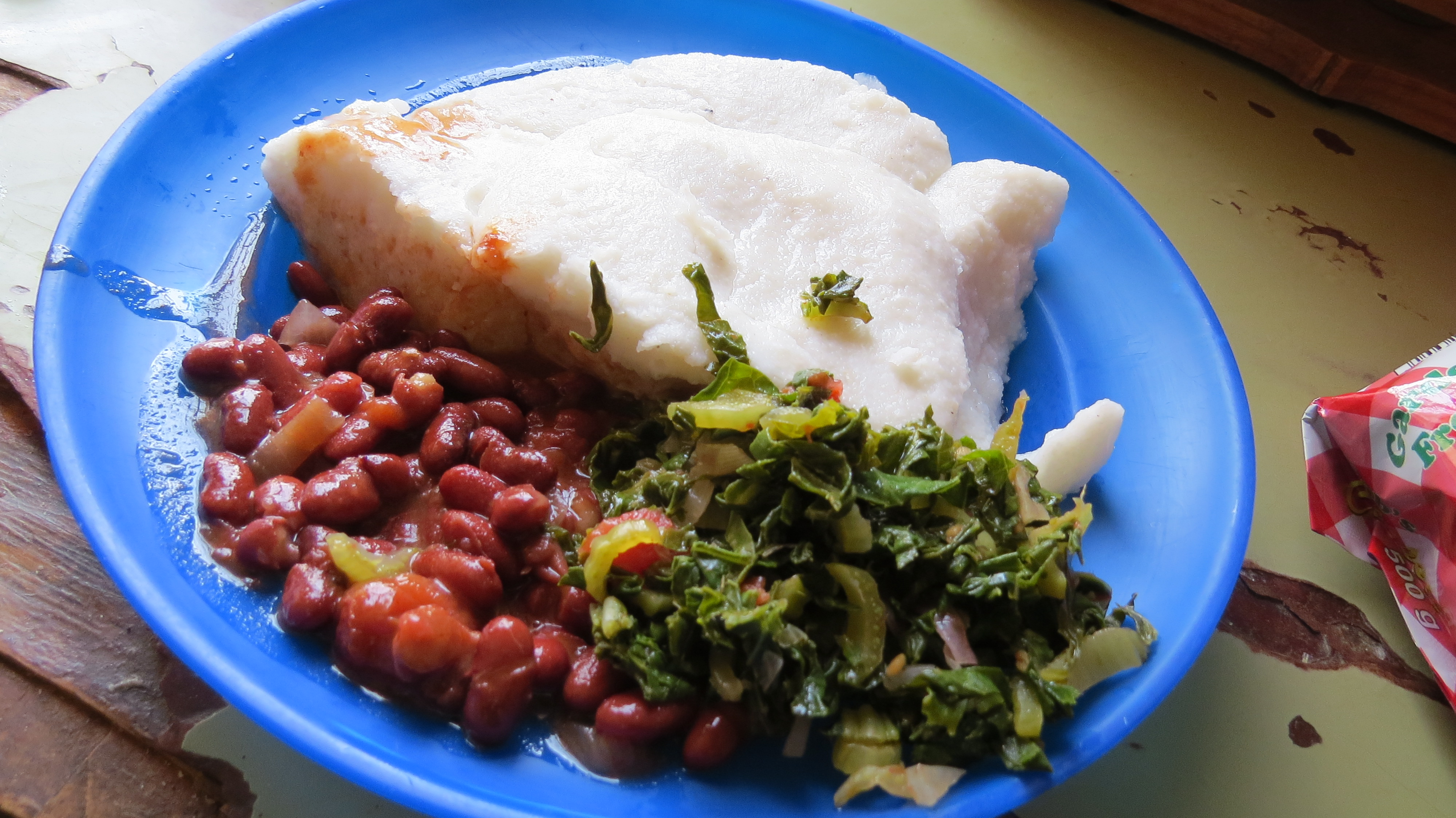 its nsima(cooked maize flour) with beans a vegetables called chinese This is an image of food from Malawi